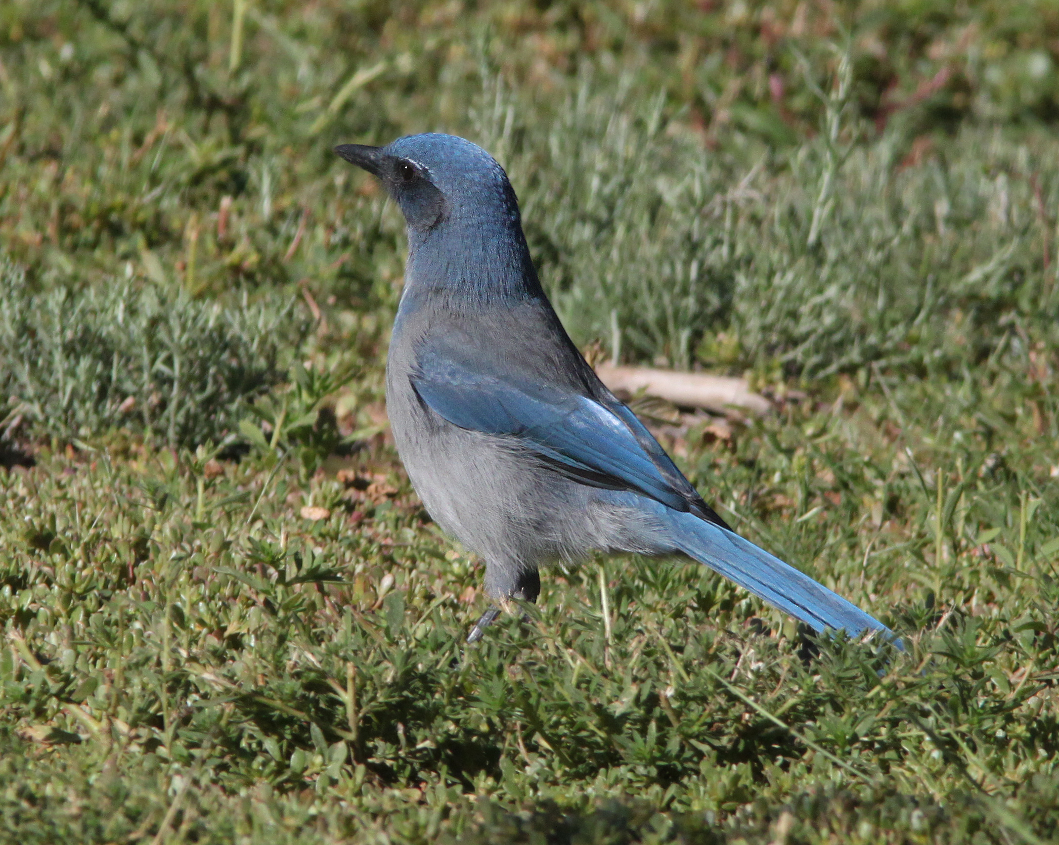 Woohouse's Scrub Jay Aphelocoma woodhouseii, Barraca Mesa, Los Alamos, New Mexico